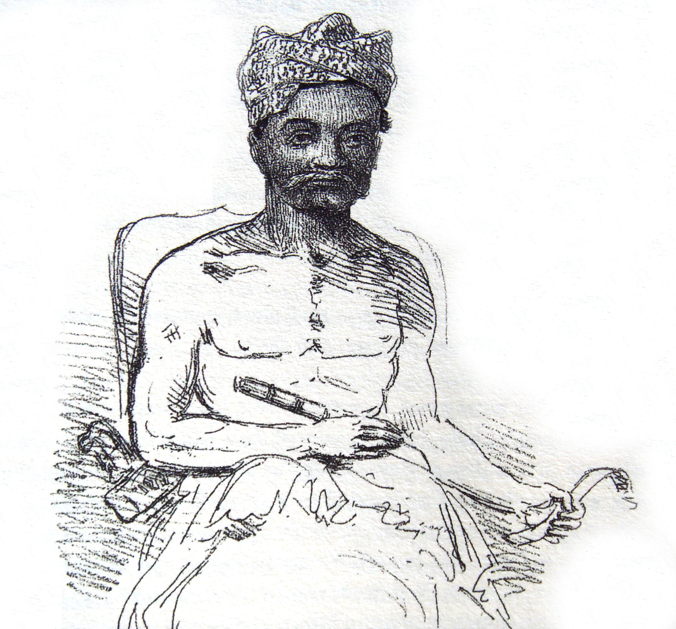 Drawing of a Balinese raja.